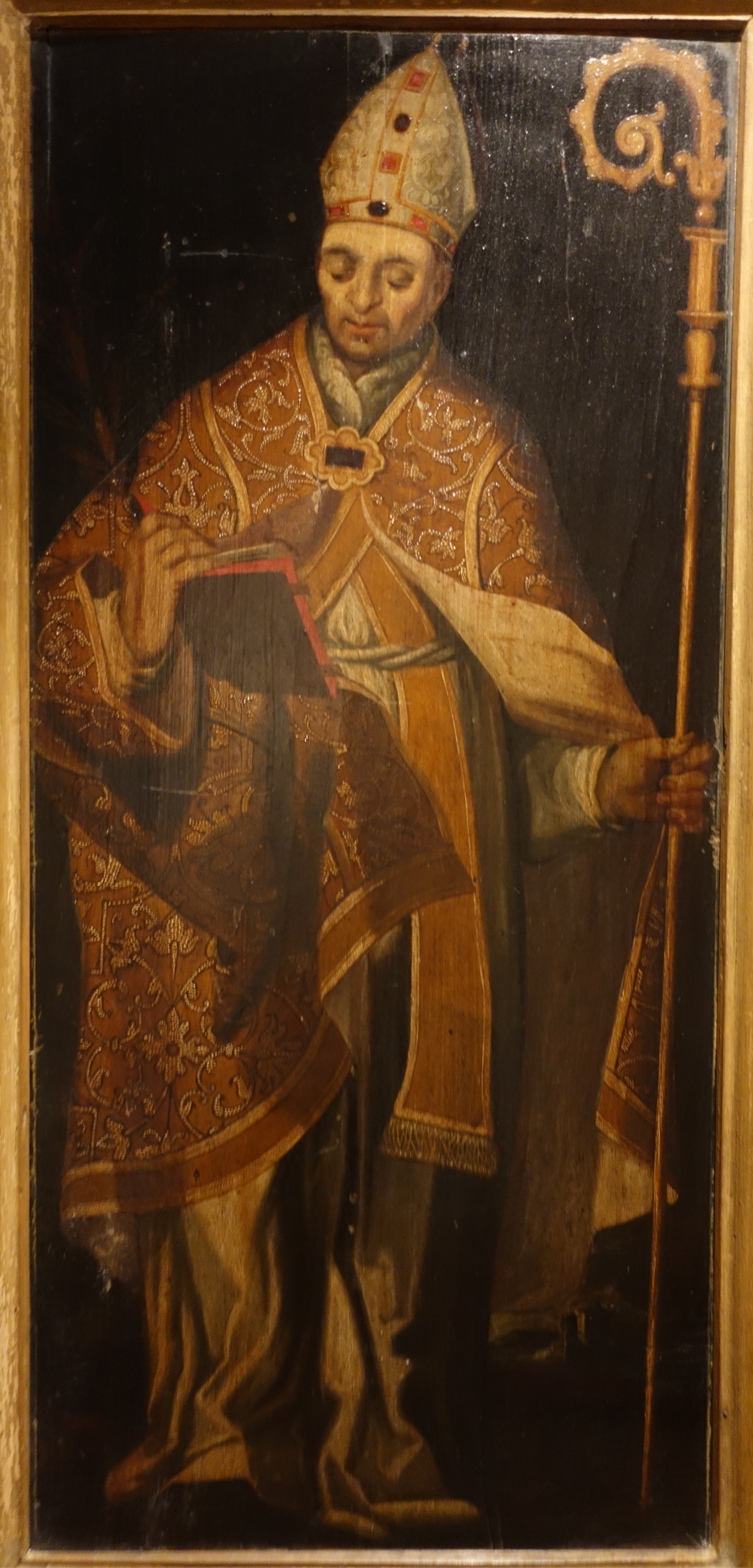 Collections of the Museu de Alberto Sampaio, Portugal